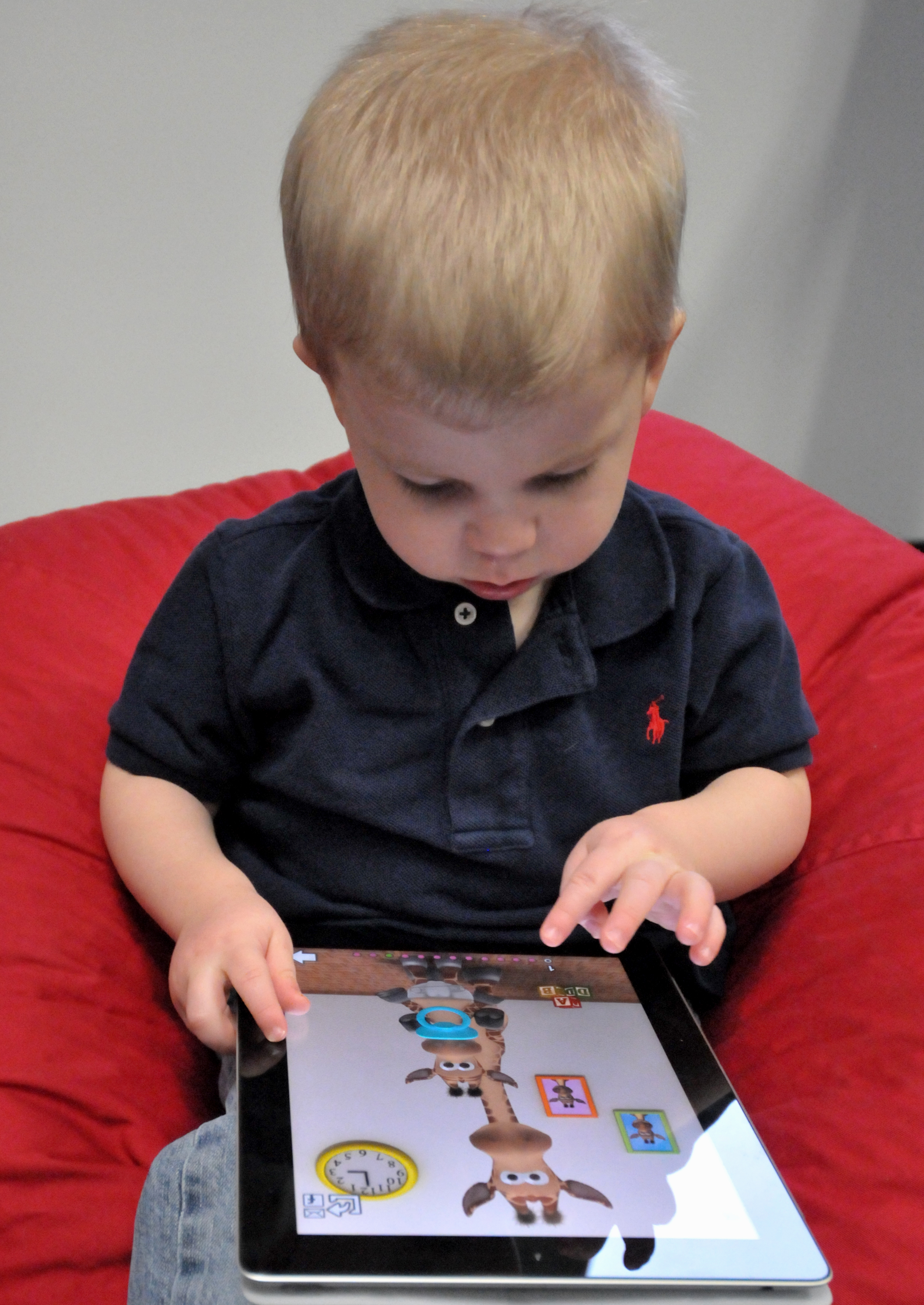 Some parents view tablets and smartphone computers as developmental tools, especially when sharing the experience and providing a healthy balance between entertainment, education and physical activity.